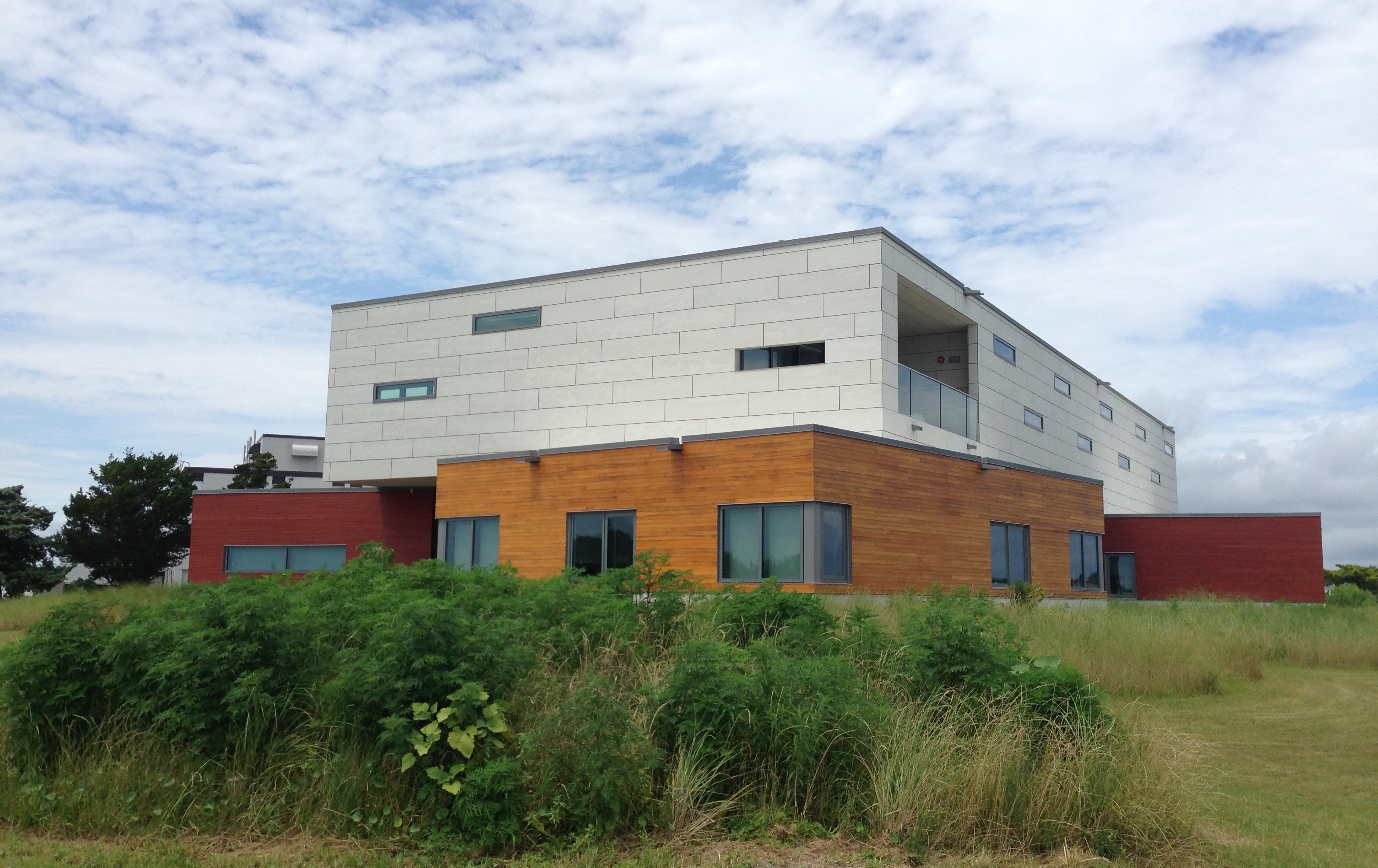 Photograph of the Orrin Pilkey research laboratory at the Duke University Marine Lab in Beaufort, NC.